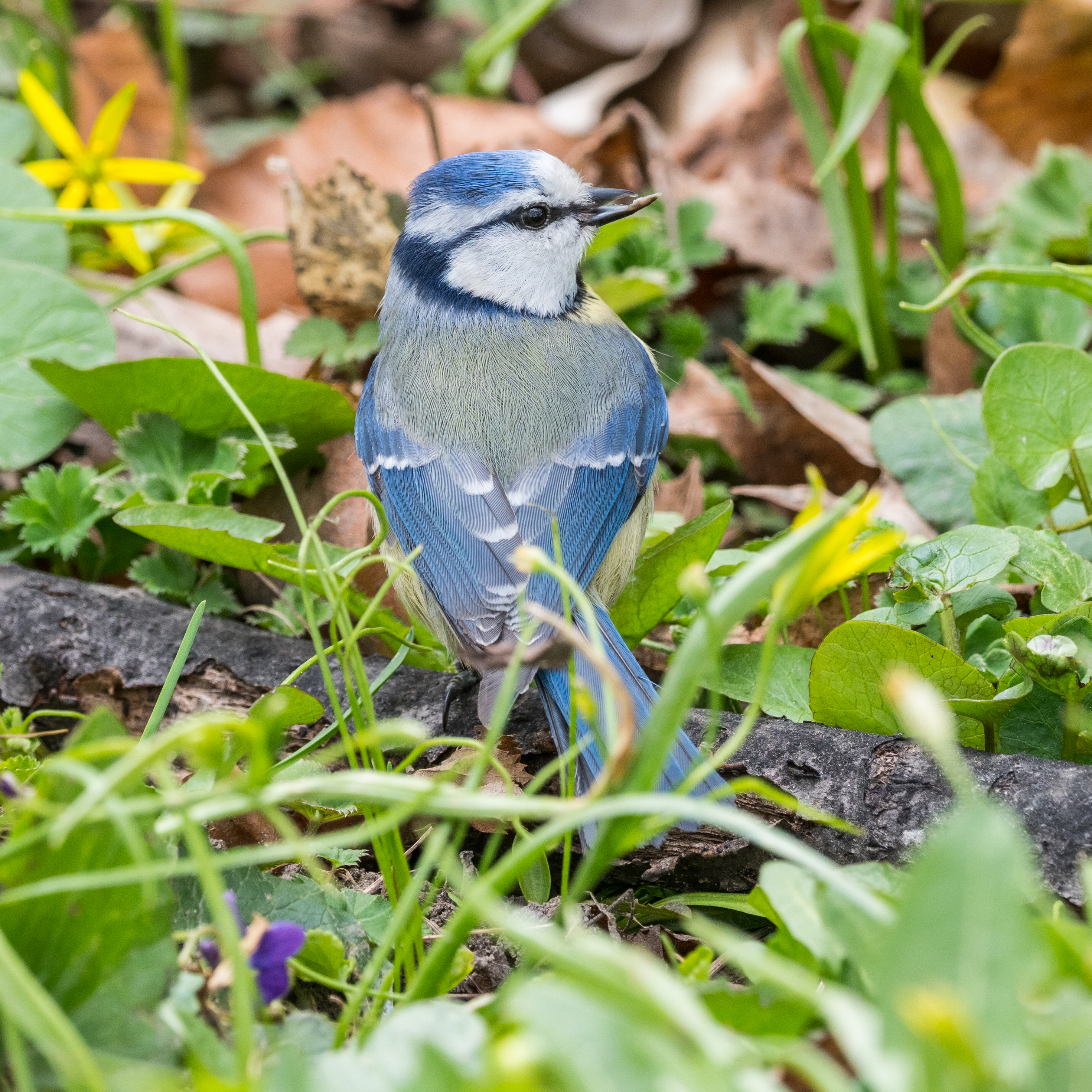 Birds, Vaxholm, Sweden, April 2018